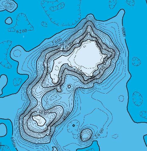 A bathymetric map of seamounts and islands in Micronesia and the Marshall Islands